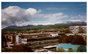 View from Dushanbe - Tajikistan